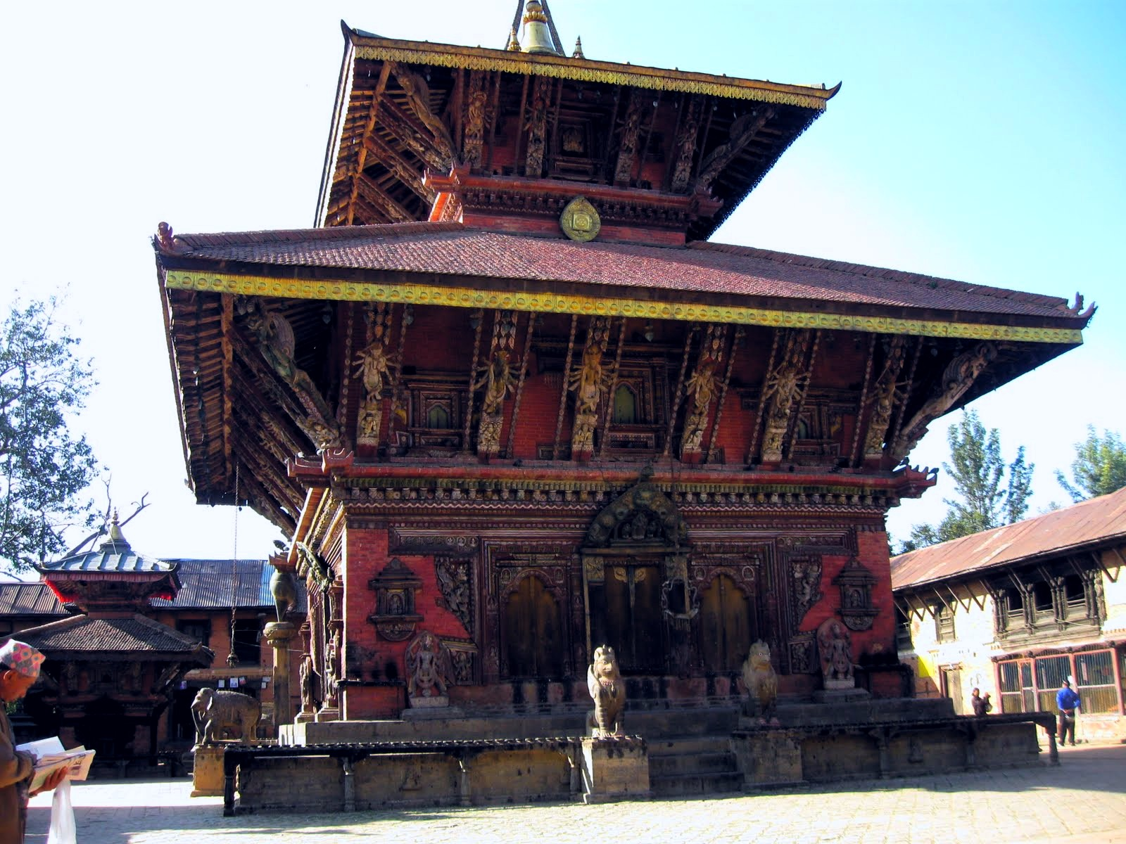 Changu Narayan temple in Bhaktapur, Nepal